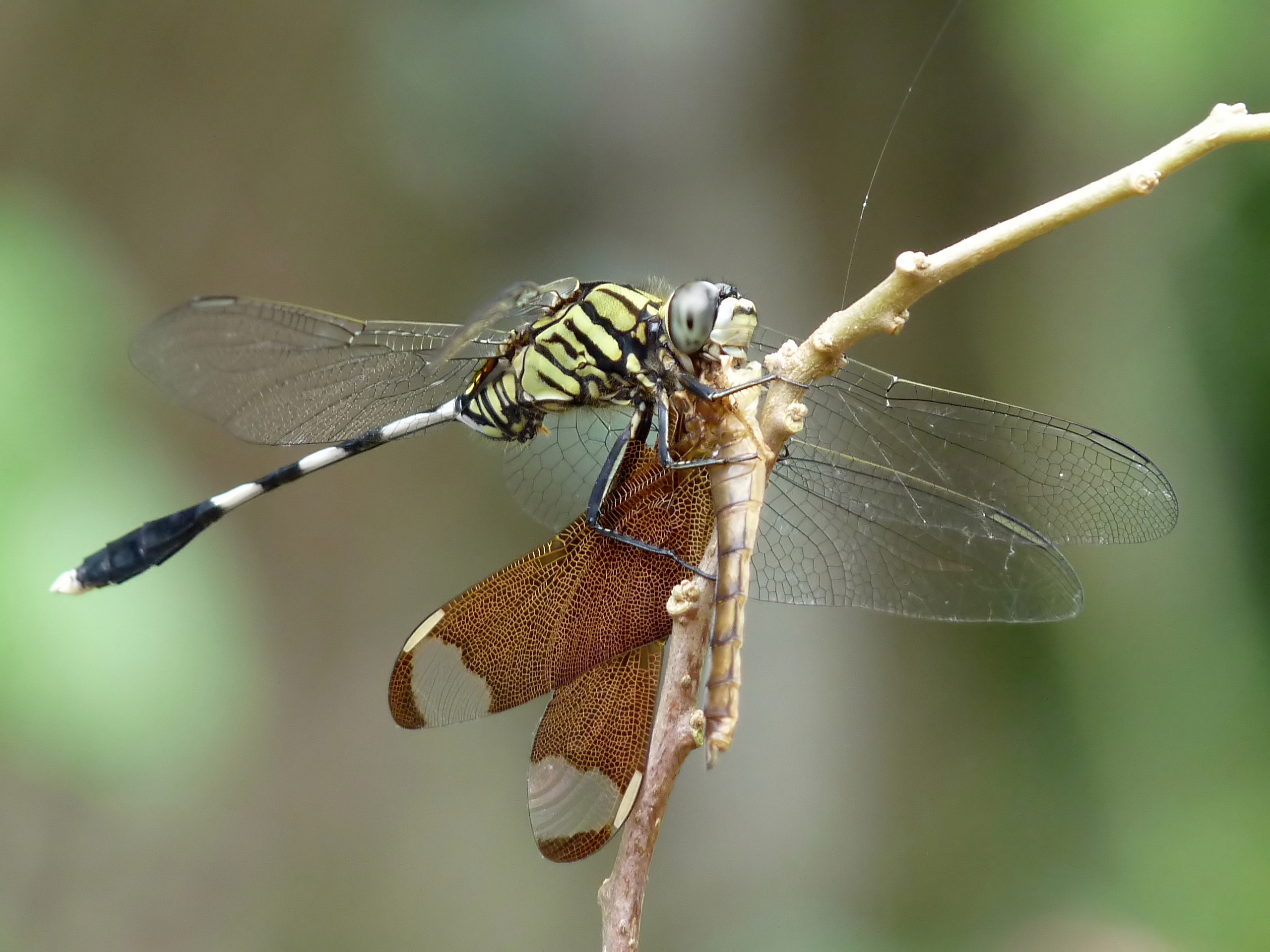 Orthetrum sabina, Slender Skimmer or Green Marsh Hawk, is a species of dragonfly in the family Libellulidae. Here it is feeding another dragonfly, Fulvous Forest Skimmer (Neurothemis fulvia). Taken at Kadavoor, Kerala, India.